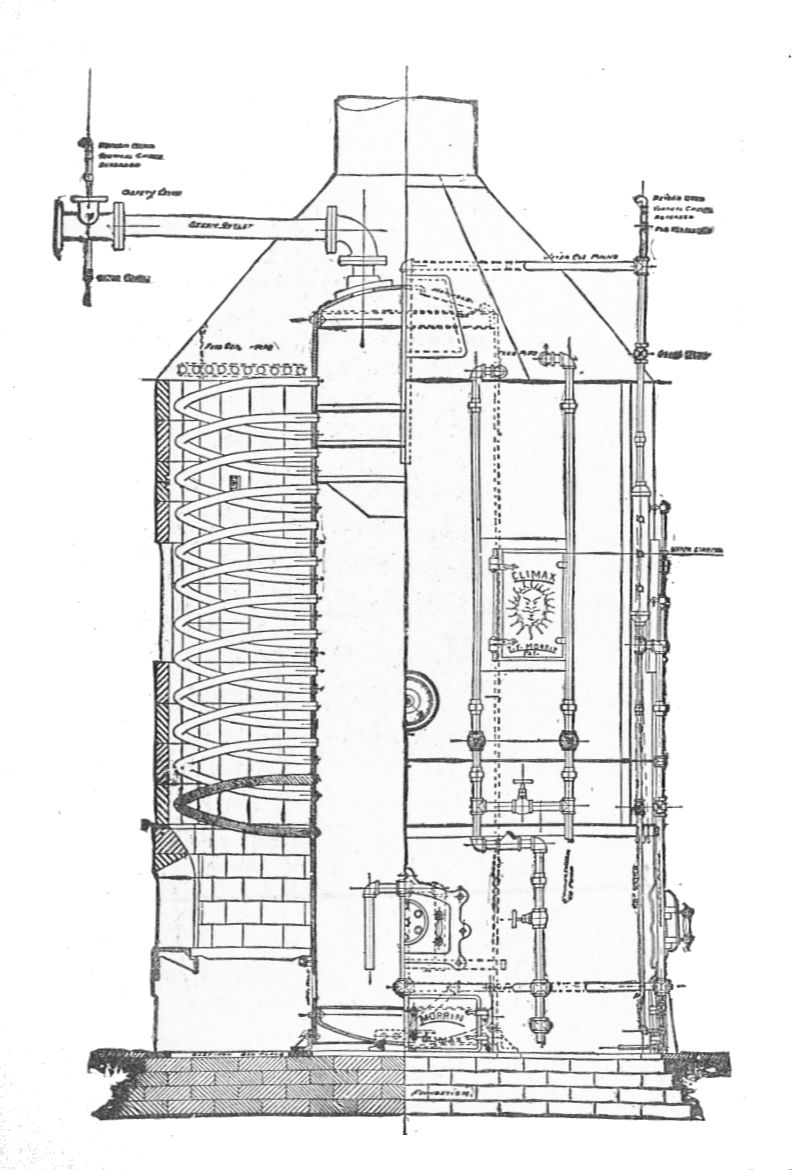 Climax boiler, section (Rankin Kennedy, Modern Engines, Vol V).jpg